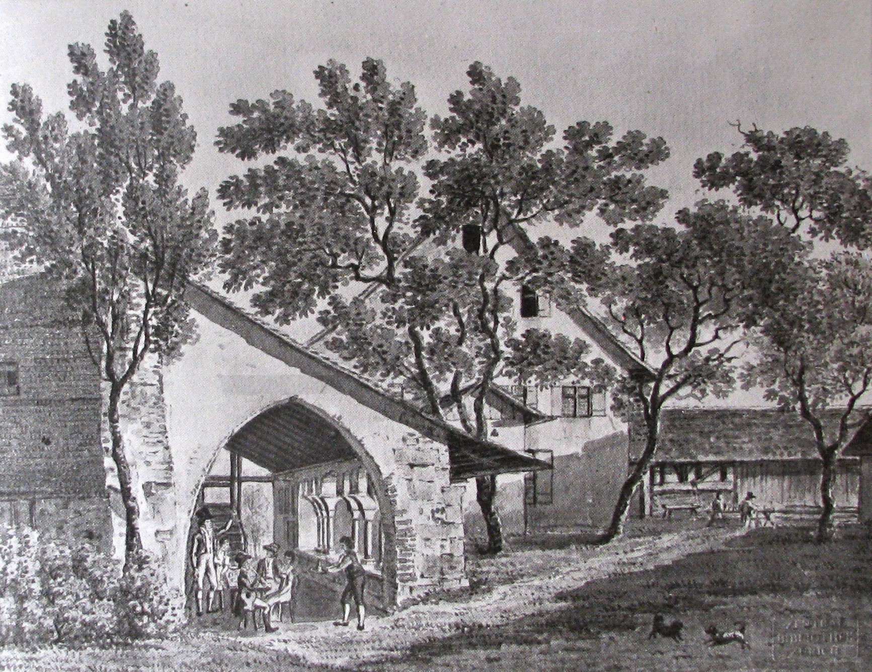 Zürich-Fluntern : St. Martin monastery, remaining buildings (1810).